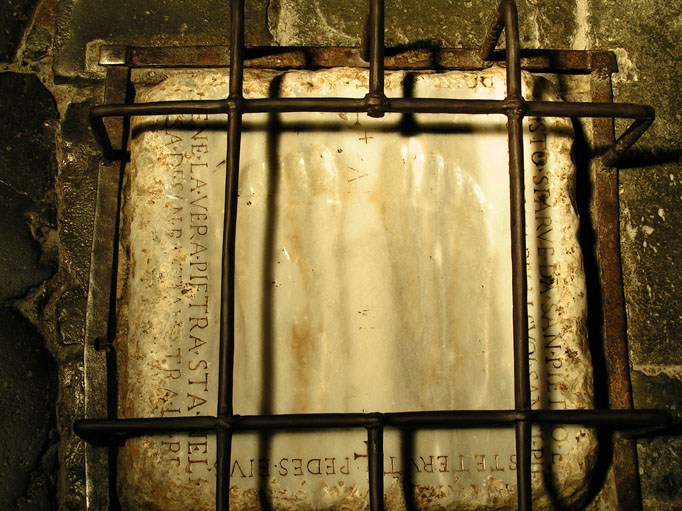 Believed to be footprints of Jesus, Quo Vadis Rome